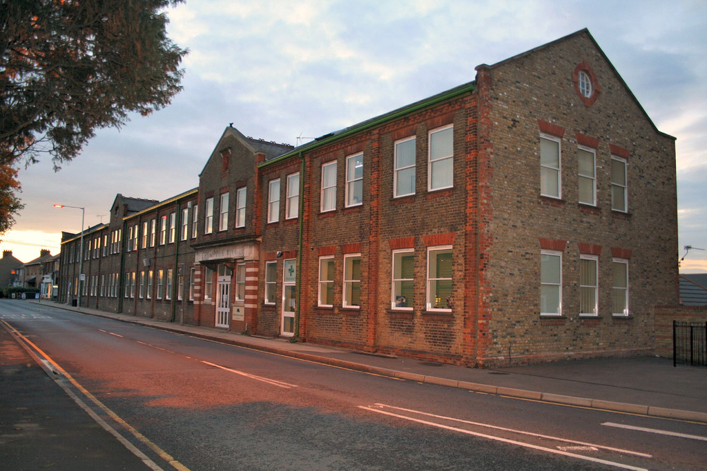 The frontage of Colonel Cromptons former Arc works in Writtle Road Chelmsford.